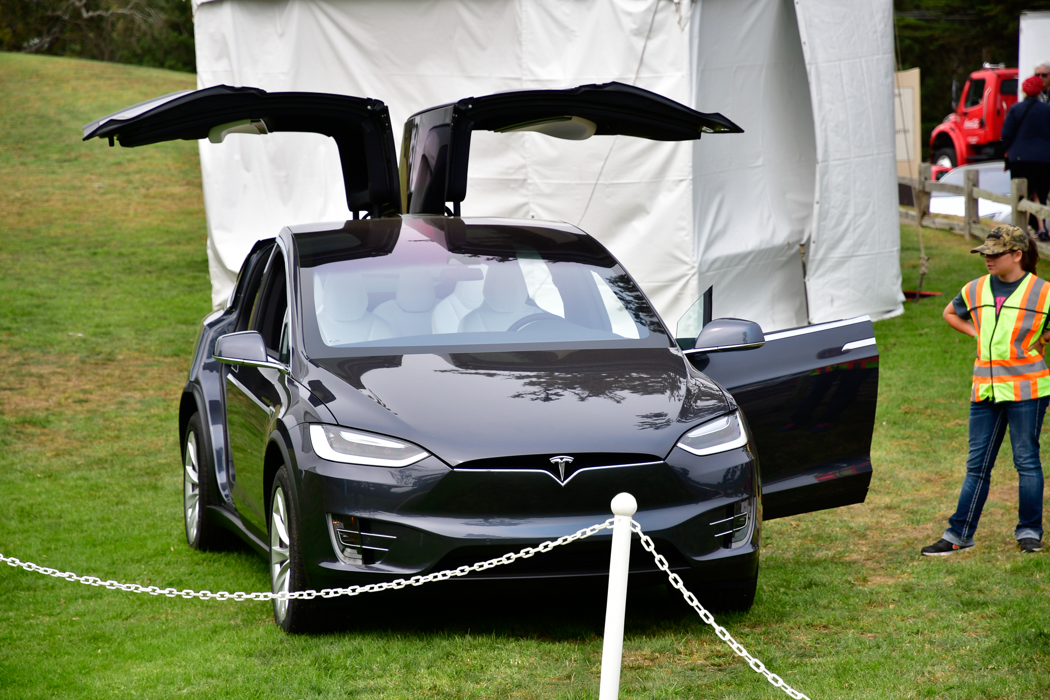 Tesla Model X